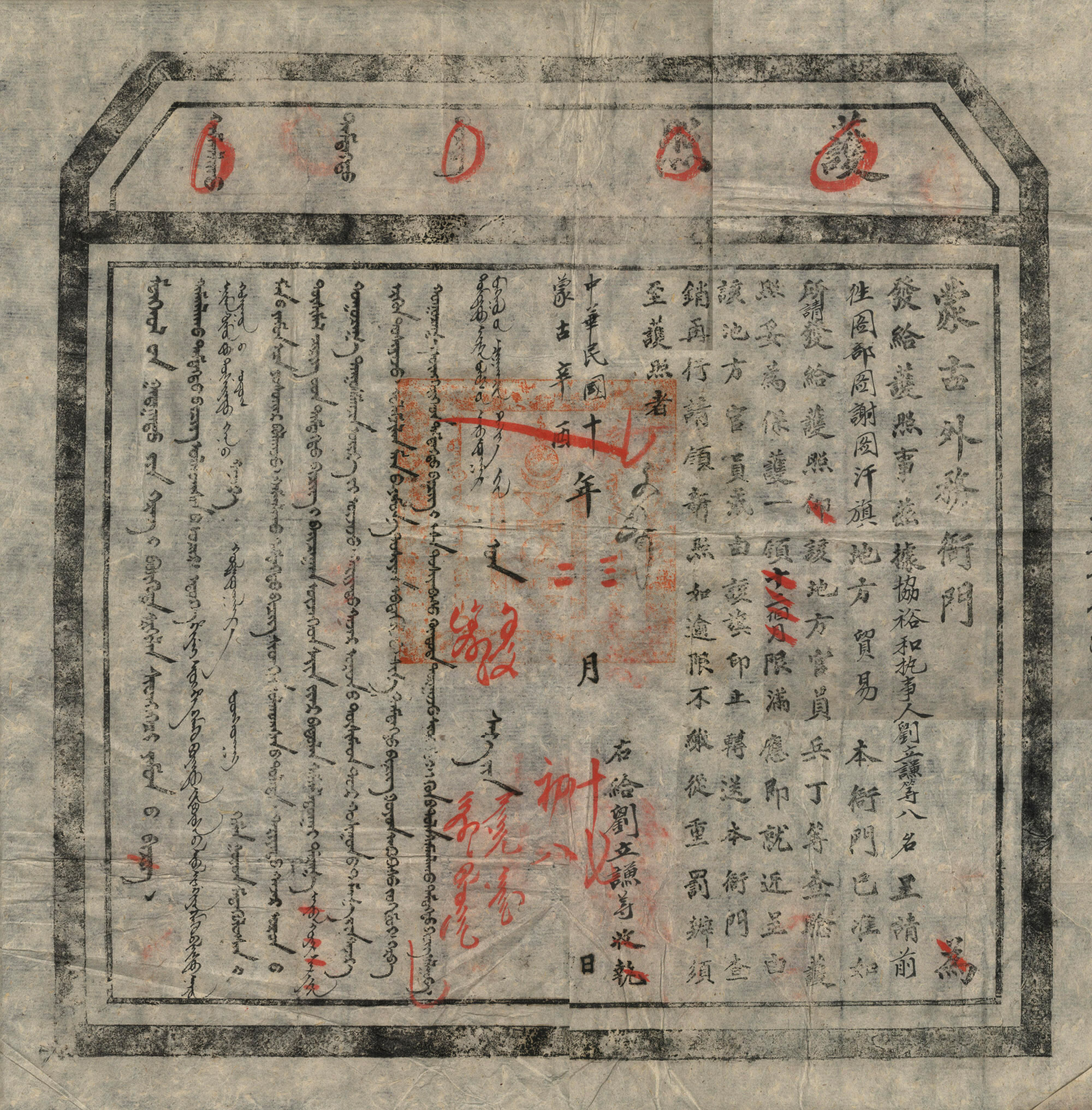 Passport issued by the Mongolian Foreign Yamen, writen in traditional Mongolian (left) and Chinese